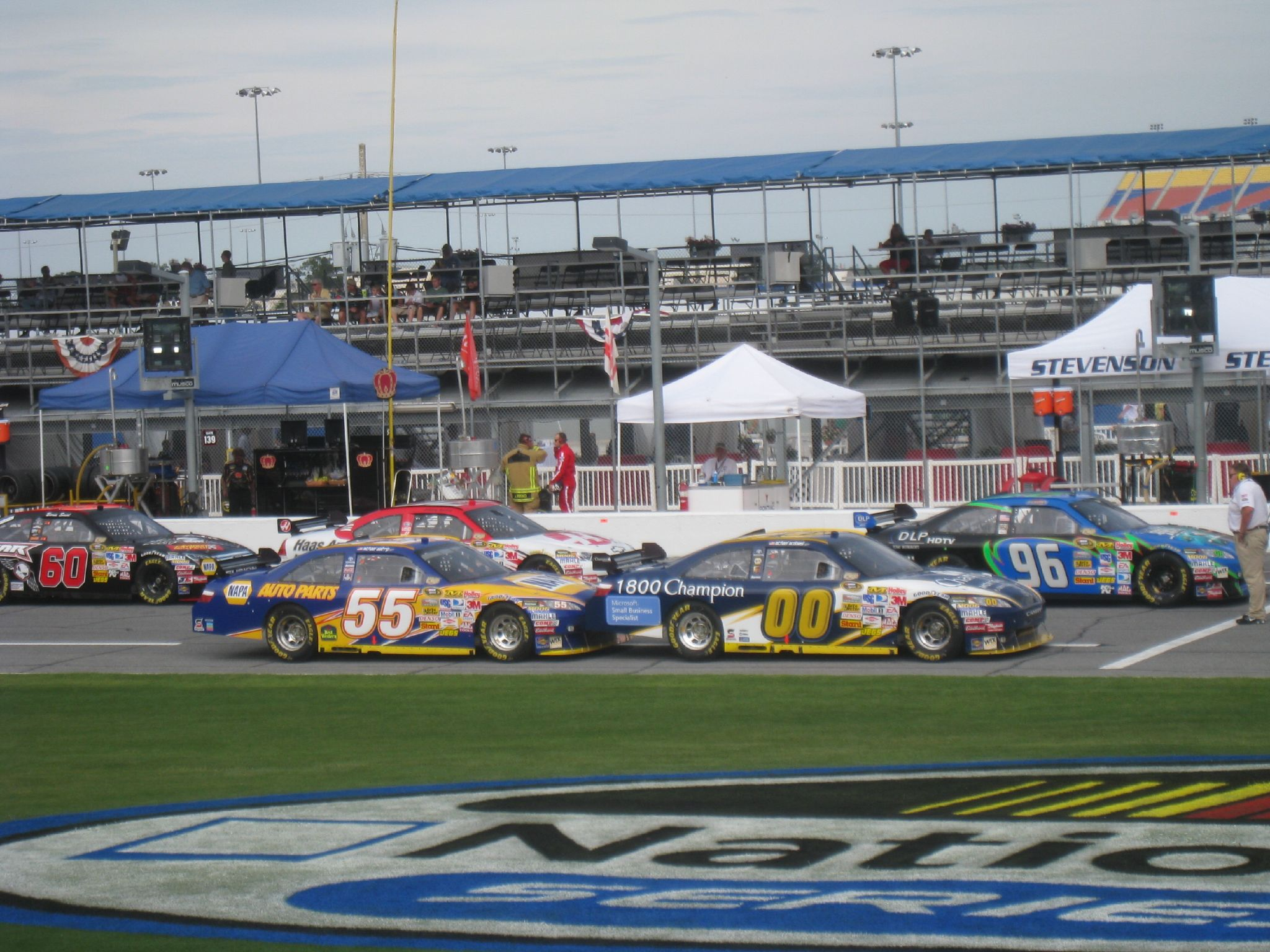 David Reutimann in the 00, getting a tap from teammate and owner Michael Waltrip.